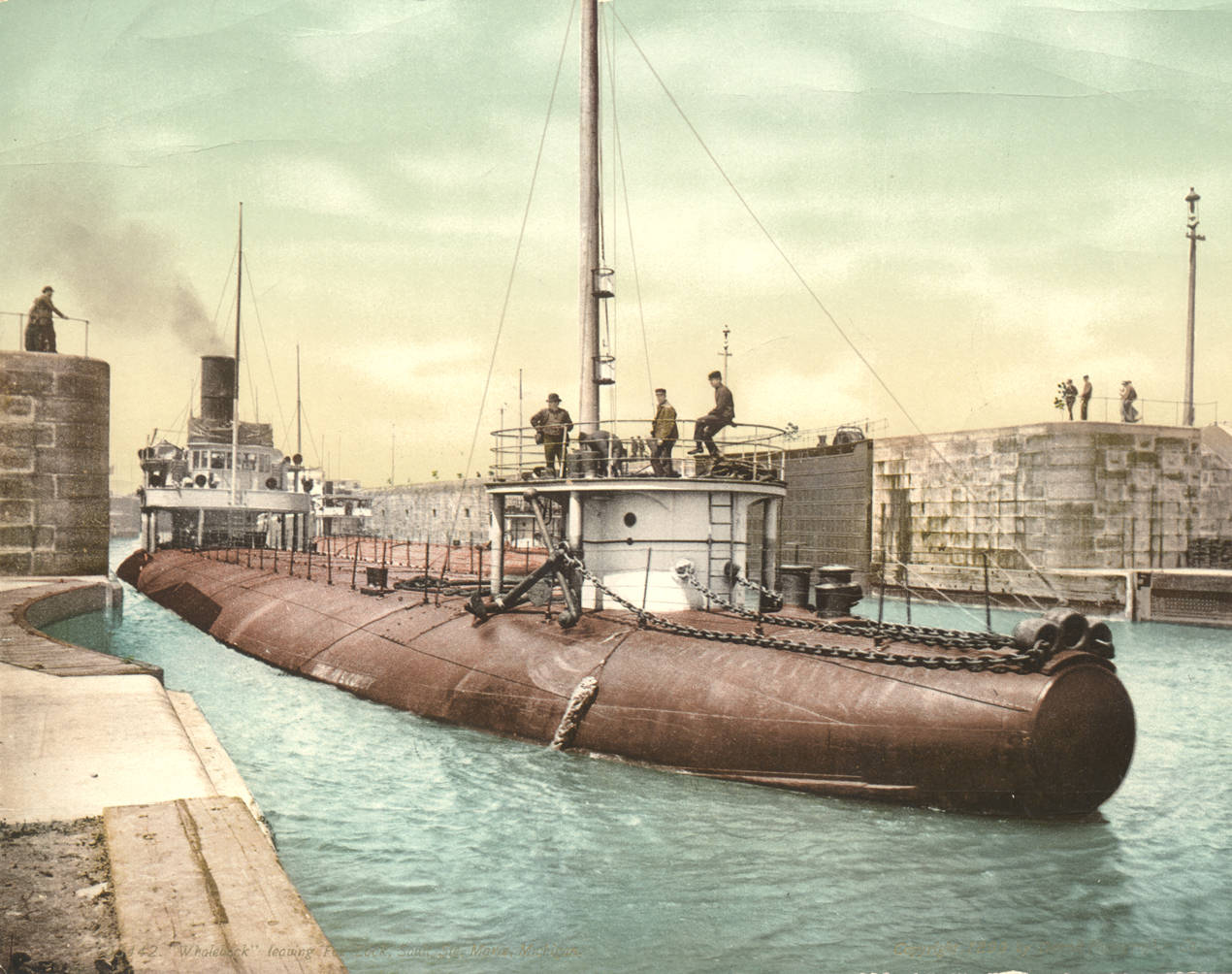 The whaleback steamer SS Joseph L. Colby (built 1890 as Hull# 108, by American Steel Barge Company, Superior, Wisconsin, 1245 Gross Tons) in the Poe Lock of the Soo Locks.